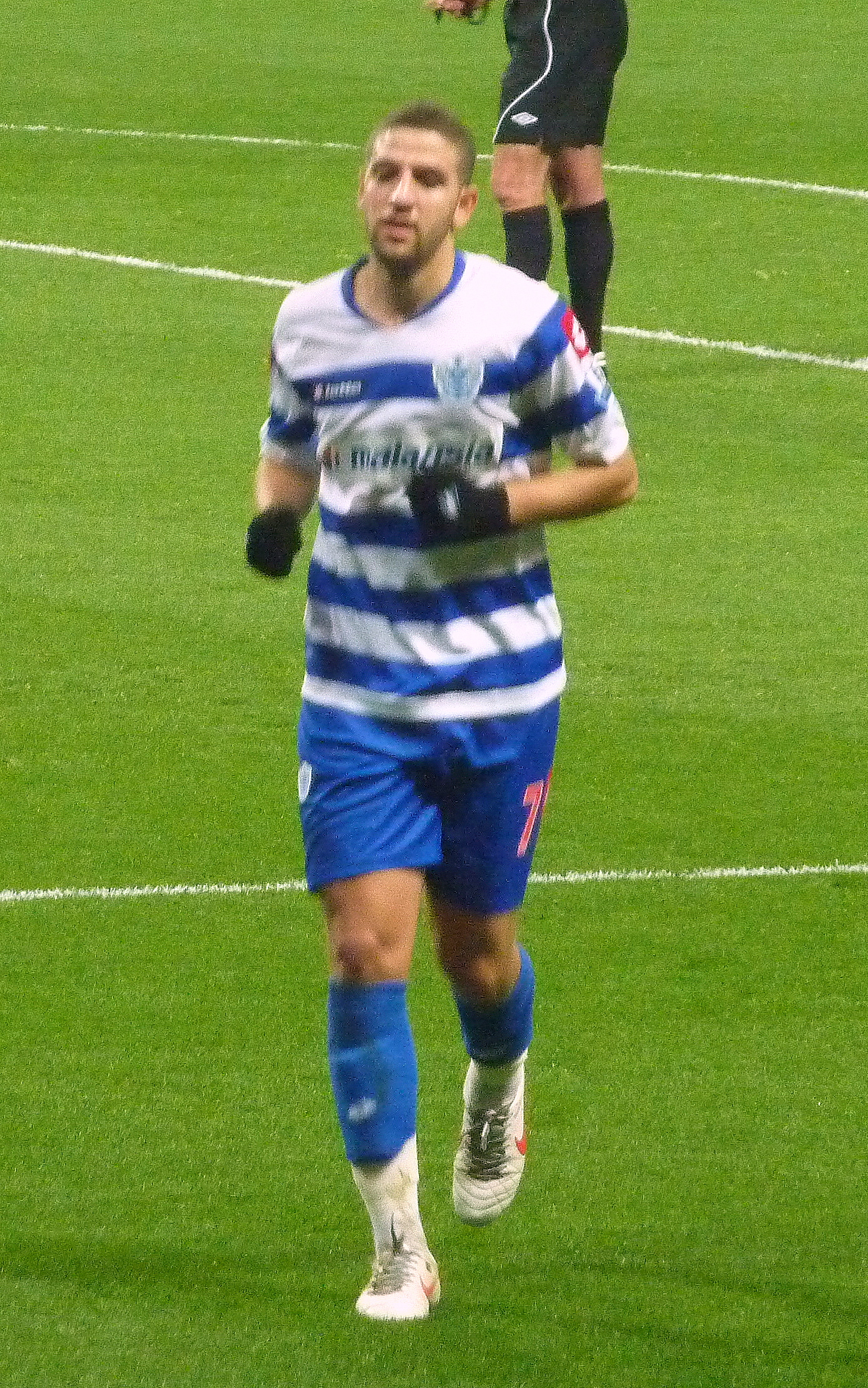 In a game against Arsenal.